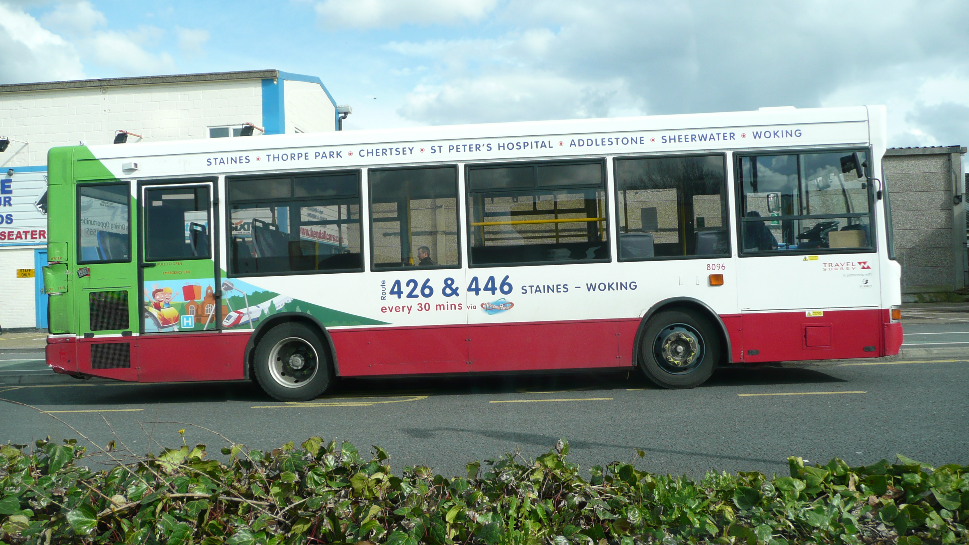 Travel Surrey 8096 (YT51 DZZ), a Dennis Dart SLF/Plaxton Pointer MPD, laying over between duties on routes 426/446 in one of the bus stands in Poole Road, Woking, Surrey. The bus wears route branding for routes 426/446. These bus stands are used by buses terminating at the adjacent Morrisons supermarket.